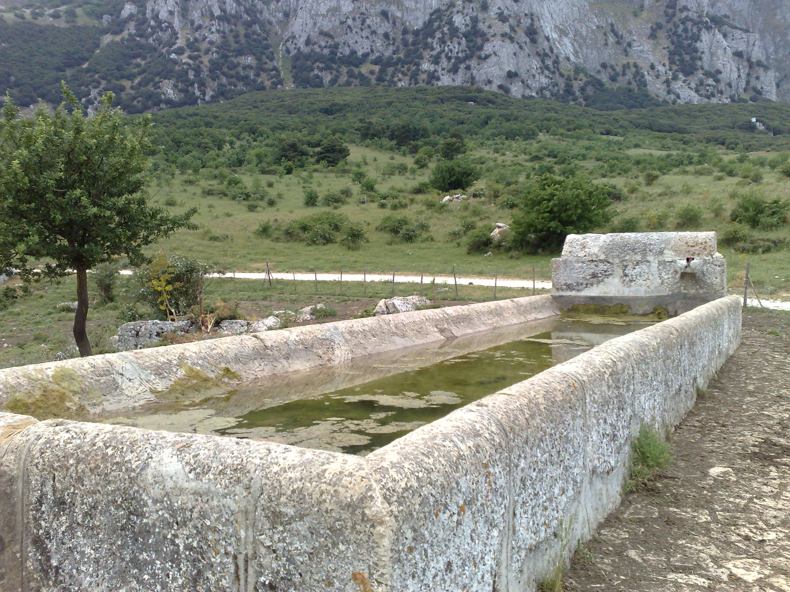 Sicilian landscape: Gebbia (water's shelter) in Parco della Ficuzza (Palermo)